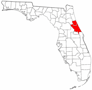 This is a locator map showing the Fun Coast in Florida, composed of Volusia and Flagler Counties. Created by User:Gamweb based on maps by David Benbennick.